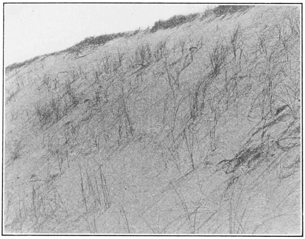 Blowout with redfieldia flexuosa